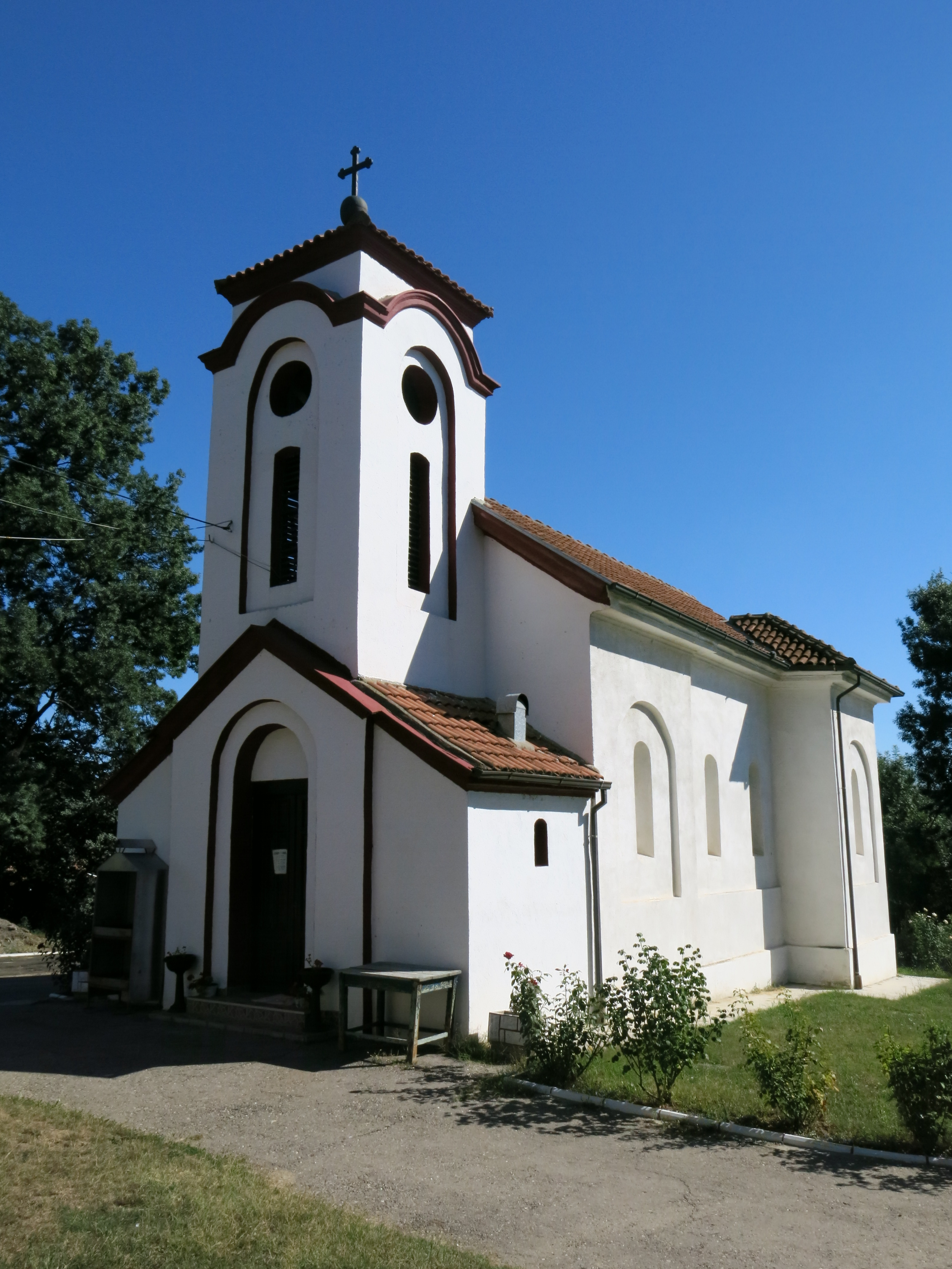 Zaklopača, Holy Trinity Church